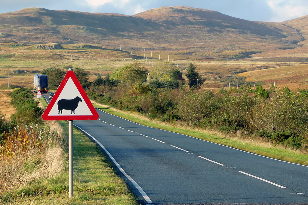 Typically Skye! Road sign warning of sheep.